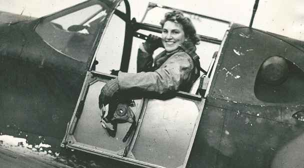 Photograph of Vera Strodl in the cockpit of a Supermarine Spitfire published in 1943 on the front page of the newspaper Frit Danmark